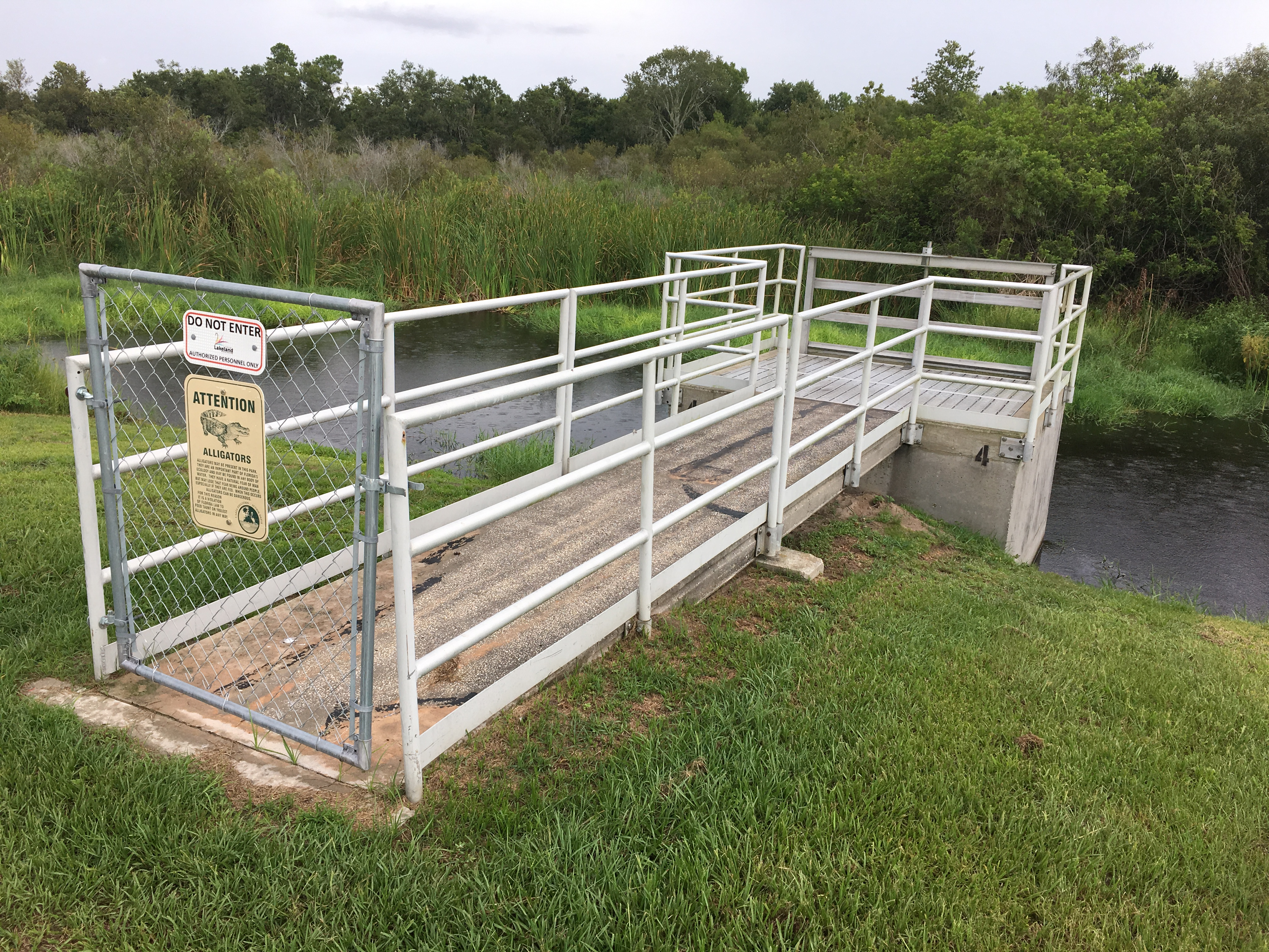 Control structure at Se7en Wetlands